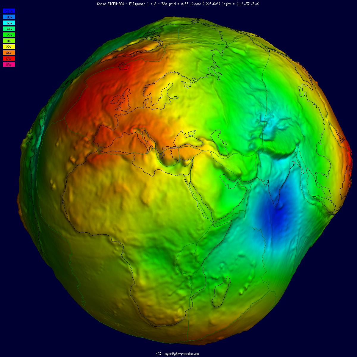 Geoid undulation in false color, shaded relief and vertical exaggeration (10000 scale factor).